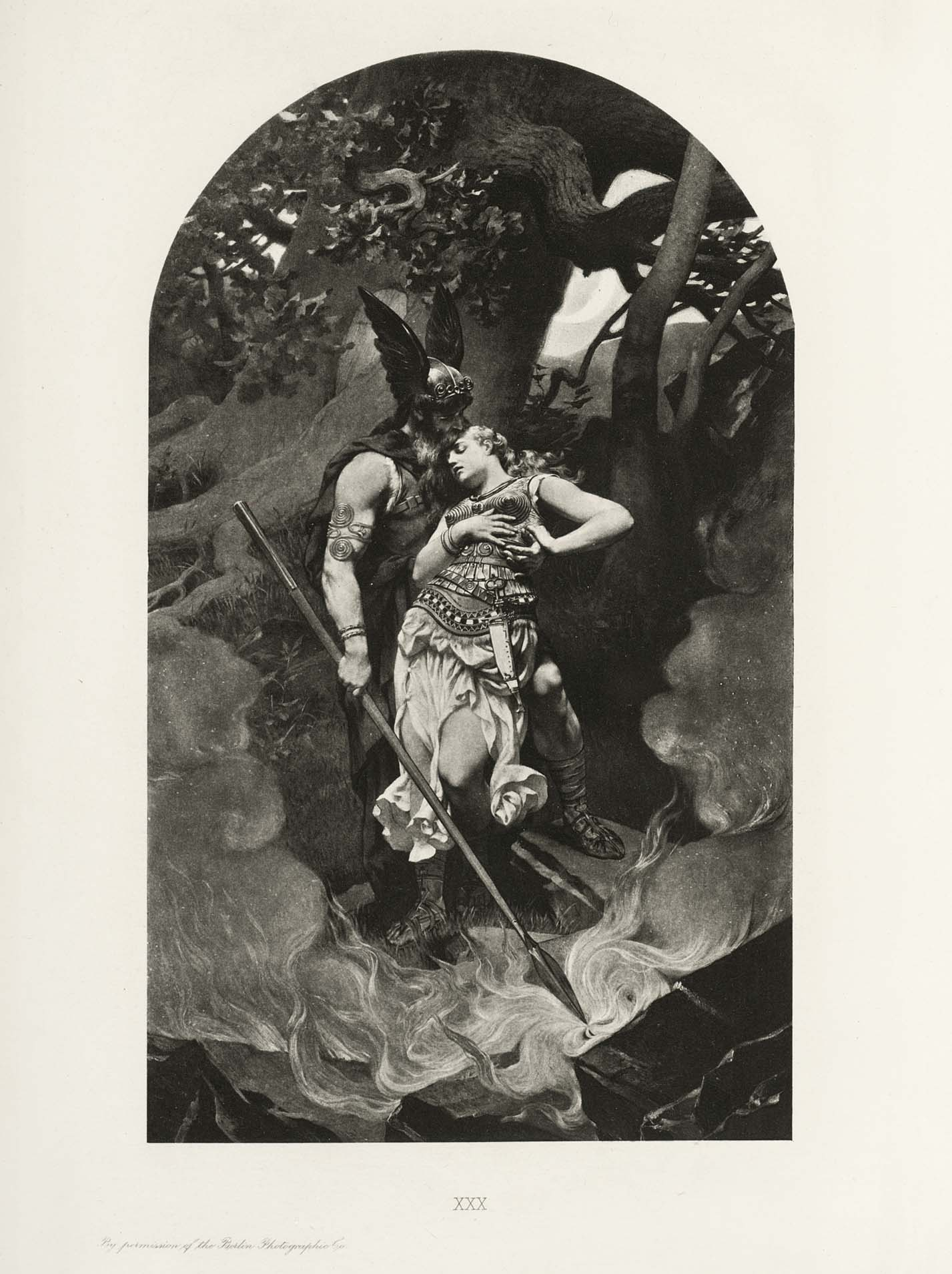 Wotan and the valkyrie Brunhild.